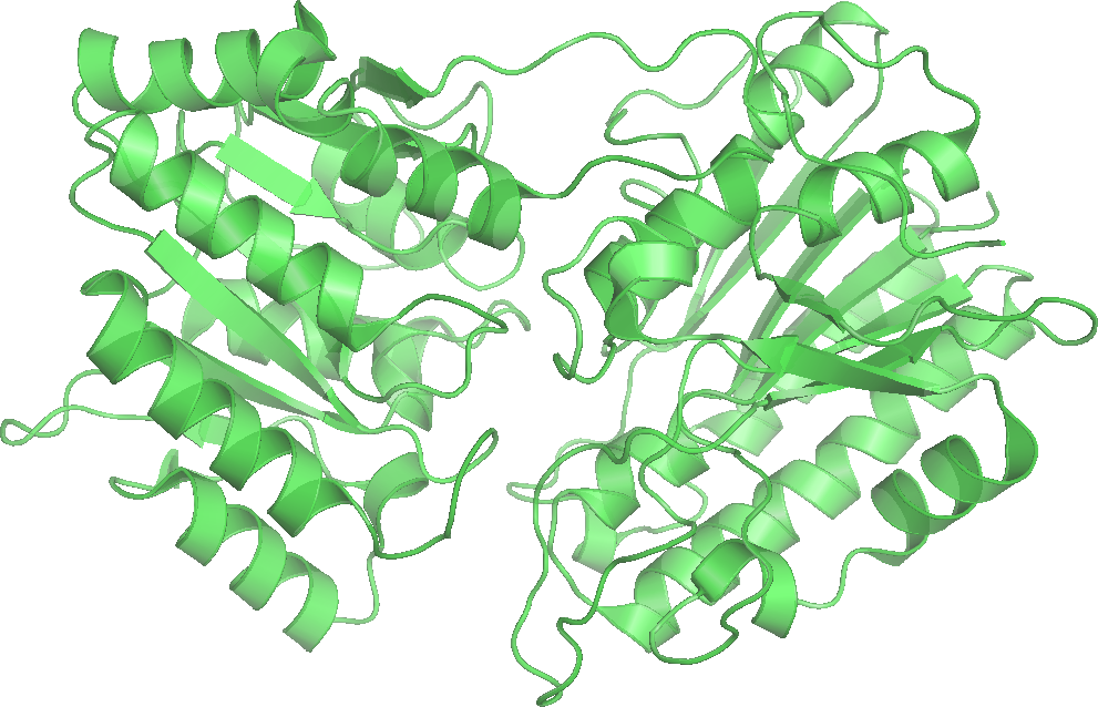 By Richard Wheeler (Zephyris) 2006.